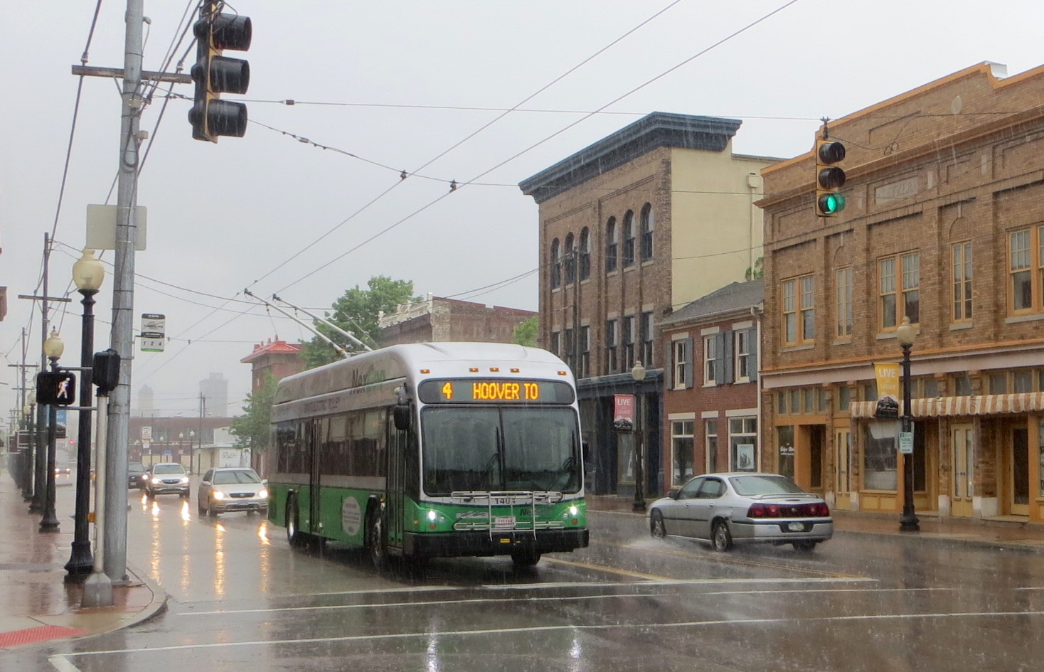 Greater Dayton RTA trolleybus 1404, a 2014-built Gillig/Kiepe dual-mode trolleybus, westbound on route 4, on Third Street at Williams Street, in a pouring rain.